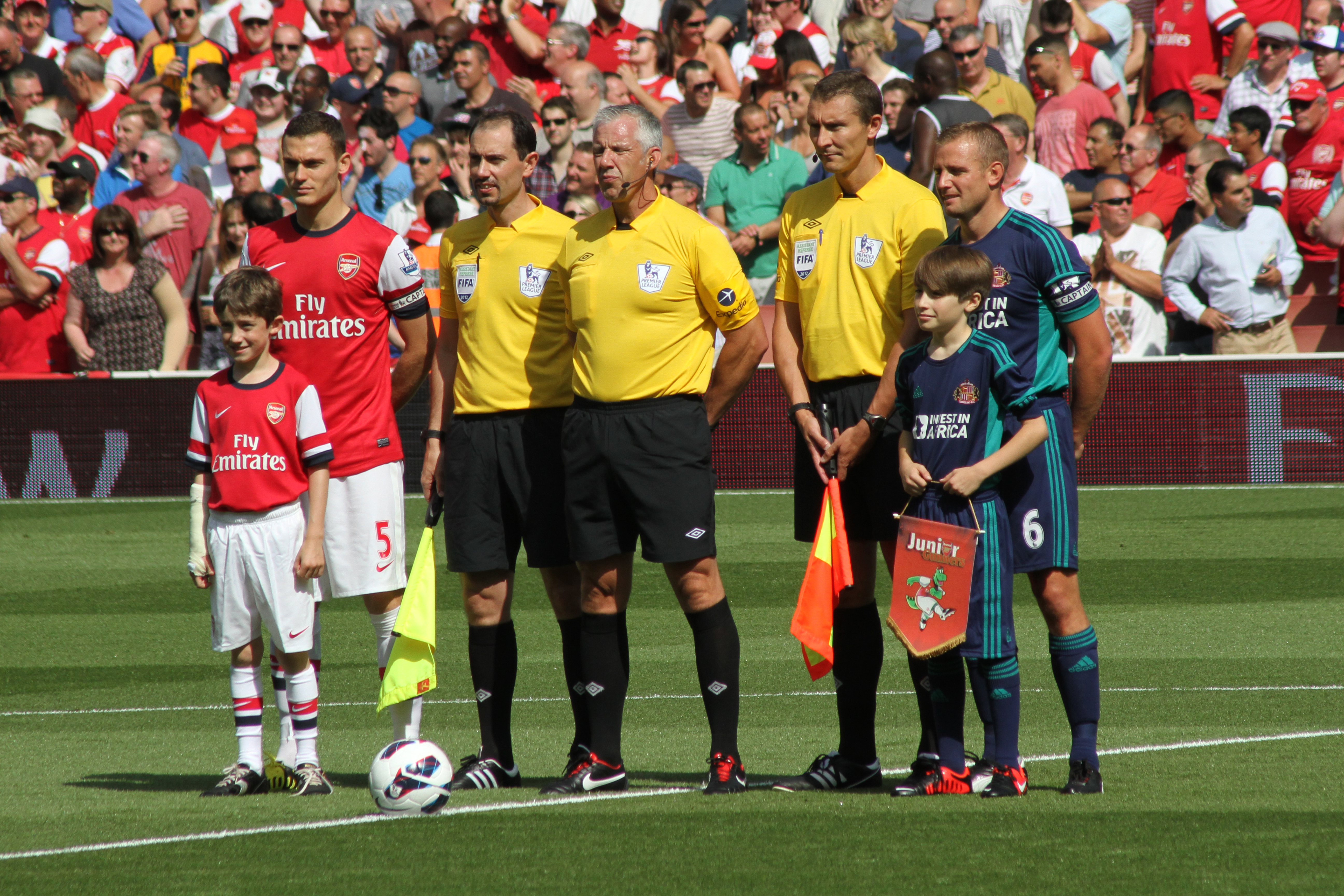 Pre match 3